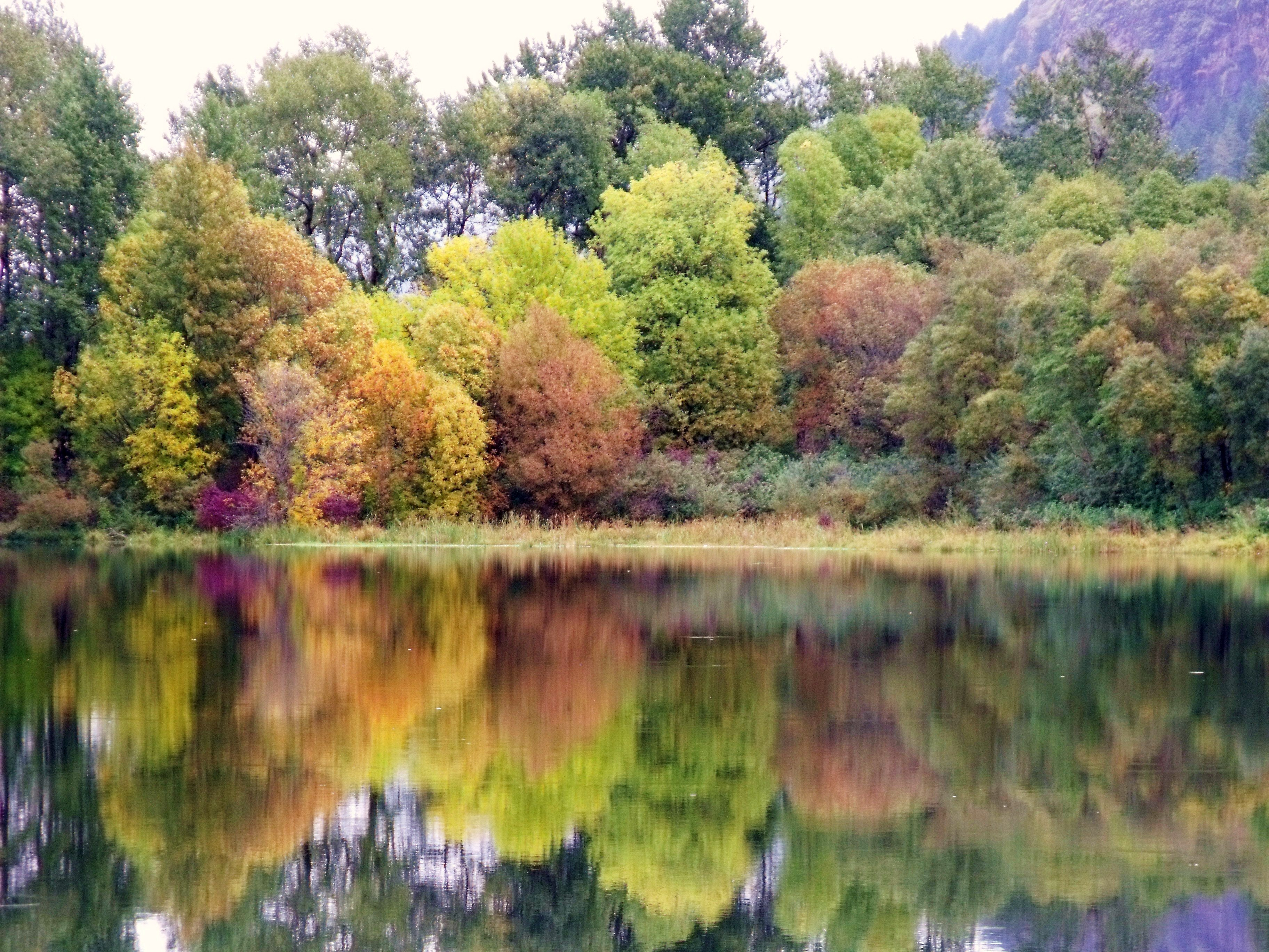 View On Black